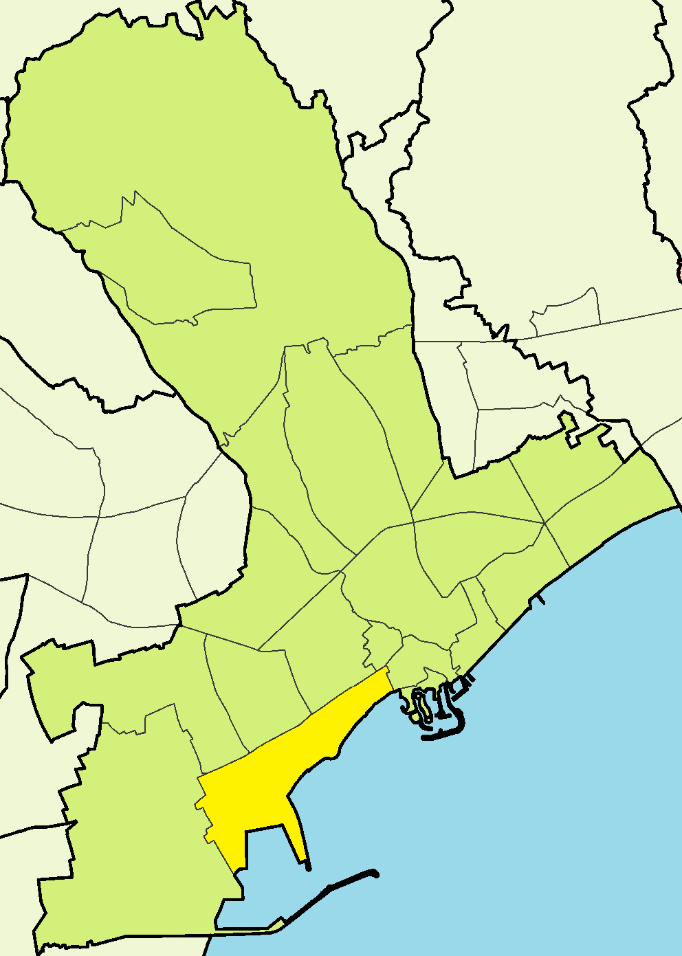 Tsiflikoudia in Limassol Municipality.